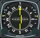 Drawing of a simple HSI, created 2006 Dr.Wessmann